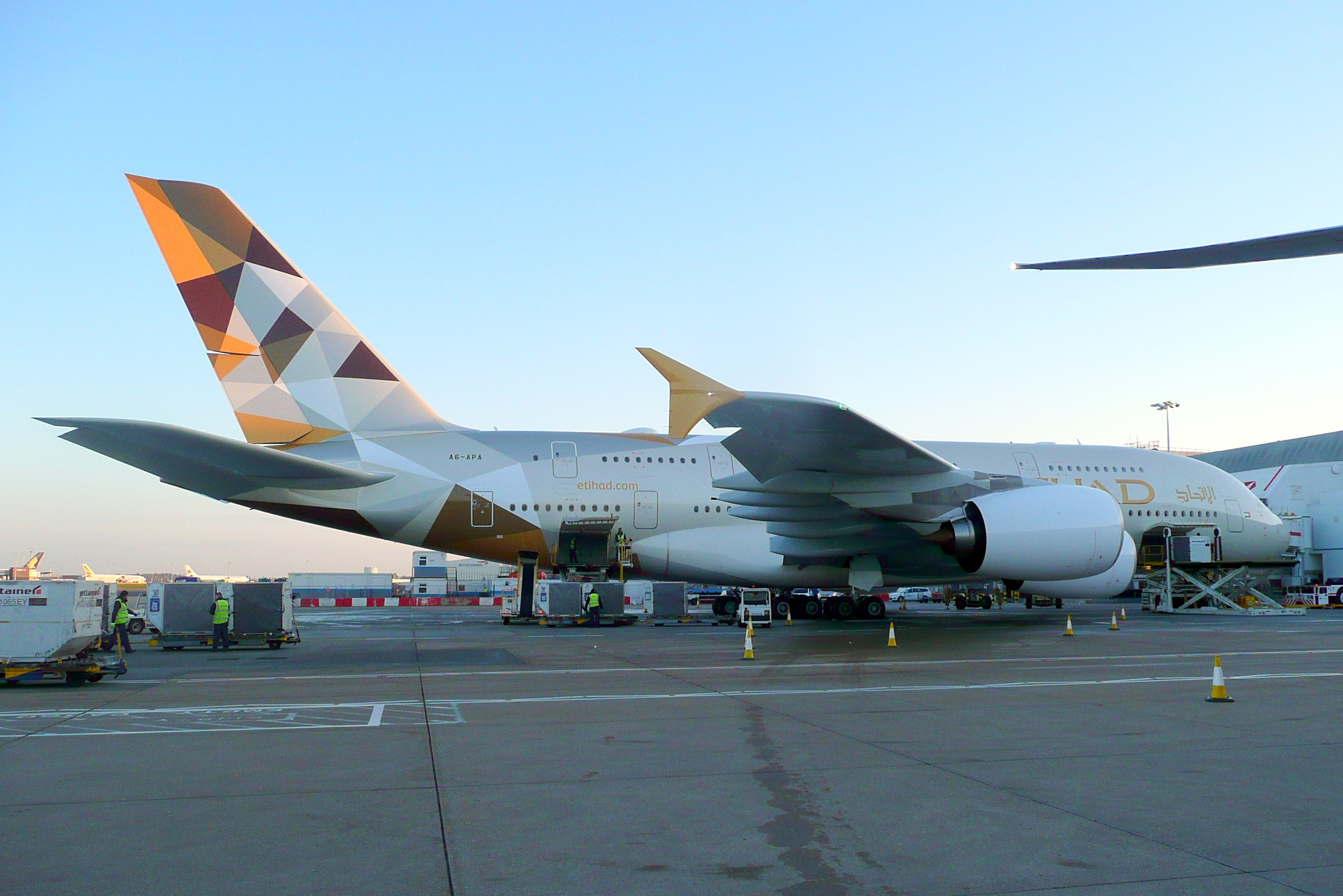 A6-APA Airbus A380 Etihad Airways on std 410 during its second visit.